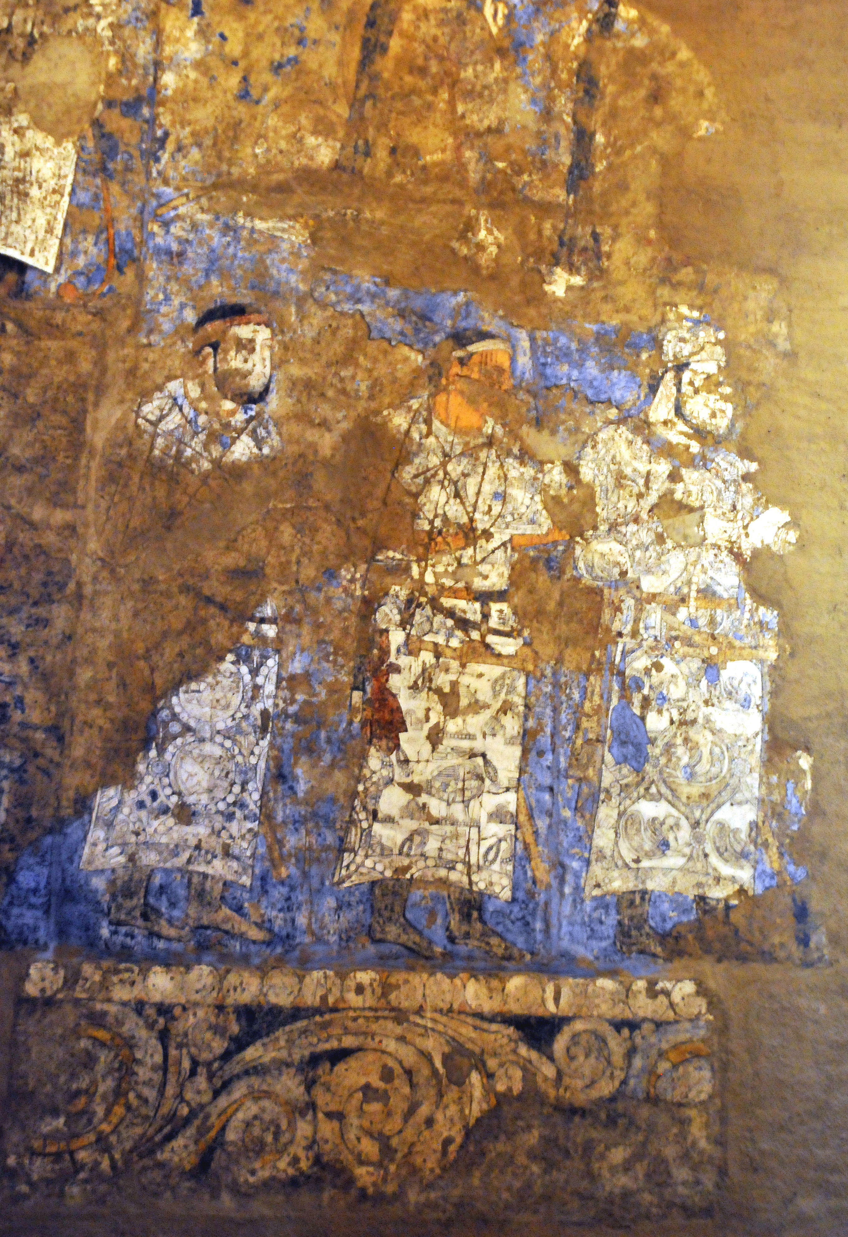 Ancient fresco; Afrasiab Museum. Samarkand, Uzbekistan